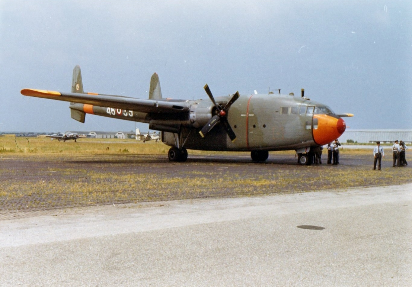 A C-119 Flying Boxcar of 46ª Brigata aerea of the Italian Air Force (Year 1971)